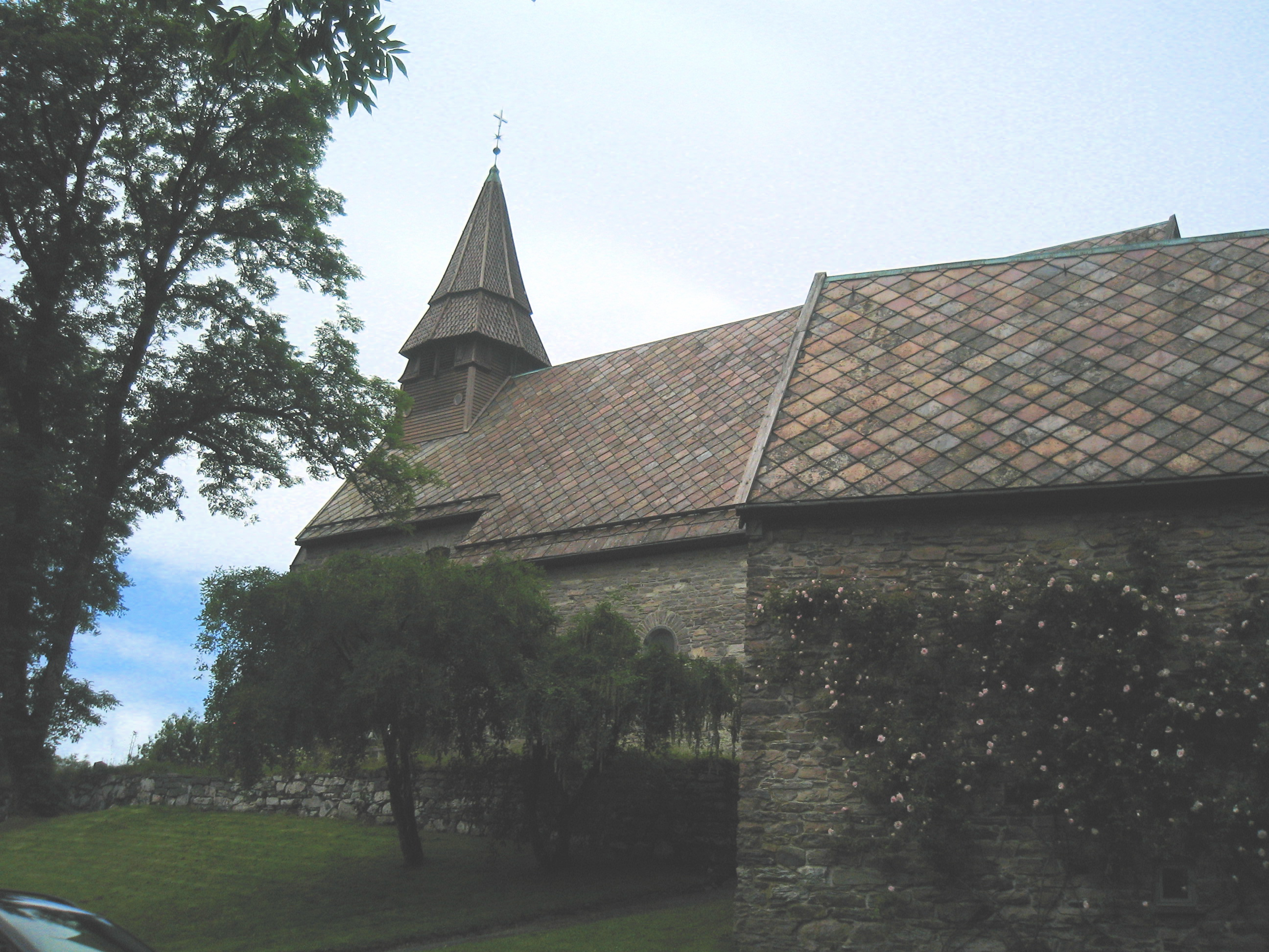 Picture of the Fana Church from the side.